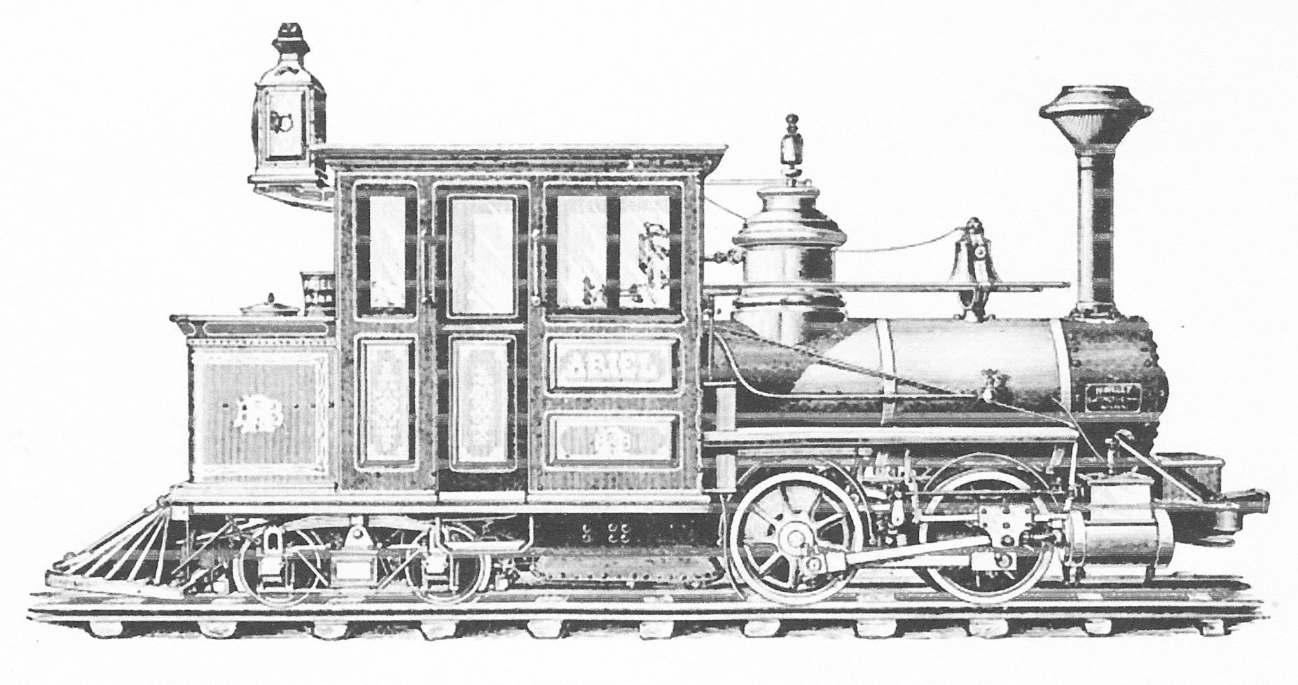 "Ariel", a Forney type cab-forward locomotive